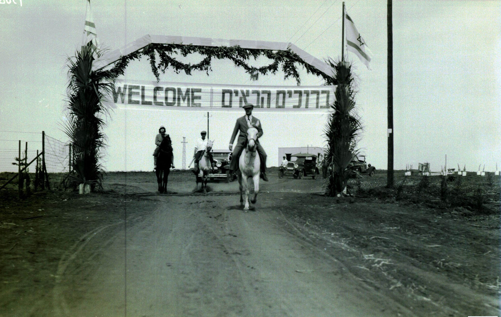 Welcome to Henry Mond, Events in Israel